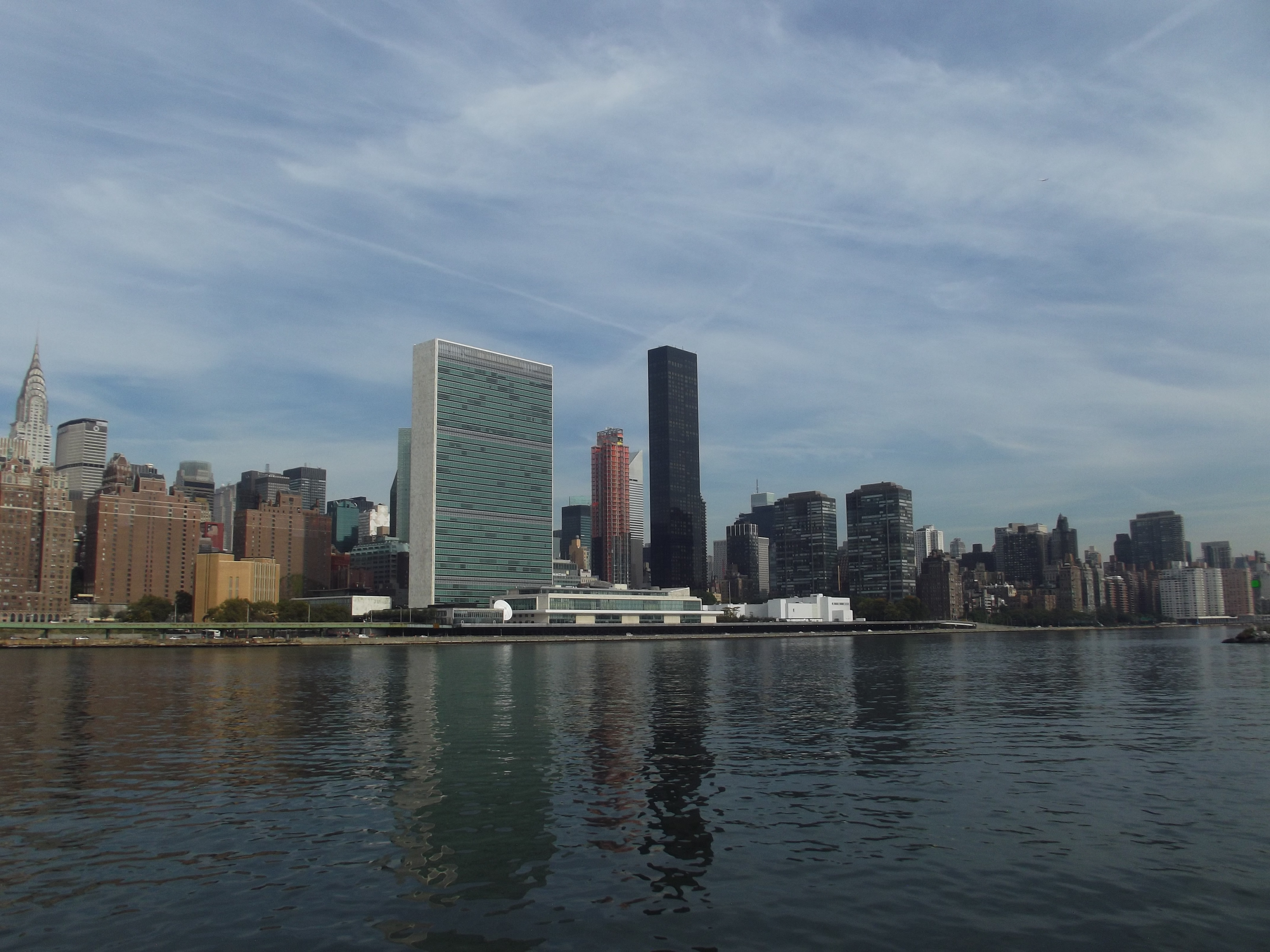 The United Nations From The East River